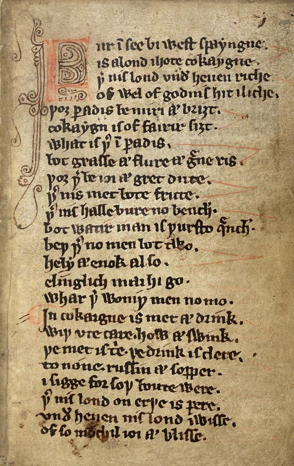 British Library Manuscript Harley 913, fol 3r. Mid-14th century manuscript containing the Kildare Poems. Shown: the beginning of the poem The Land of Cockaigne.